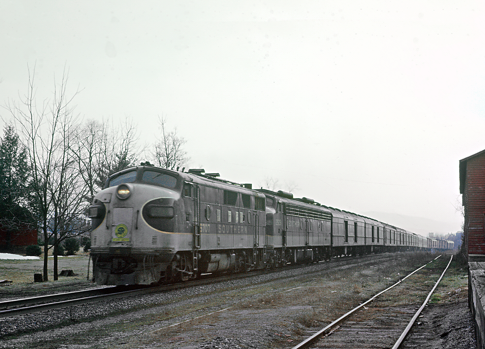 Southern Railway F3A #6707 with train 18, the Birmingham Special, at Somerset, Virginia on March 8, 1969.